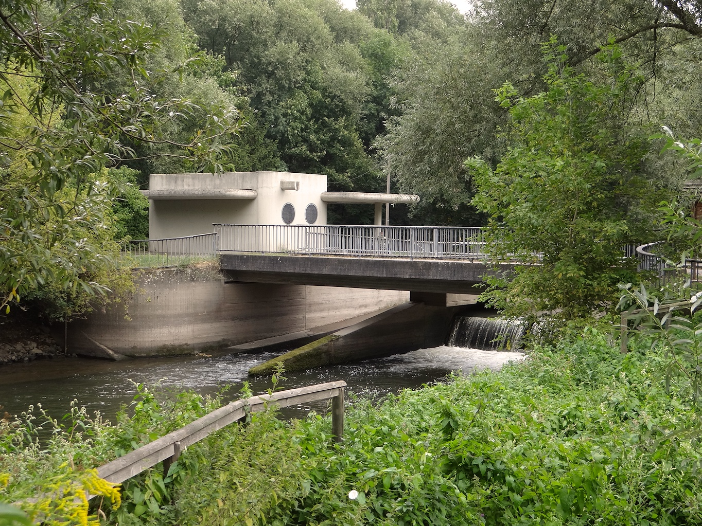 Weir in Ölper from lower side.